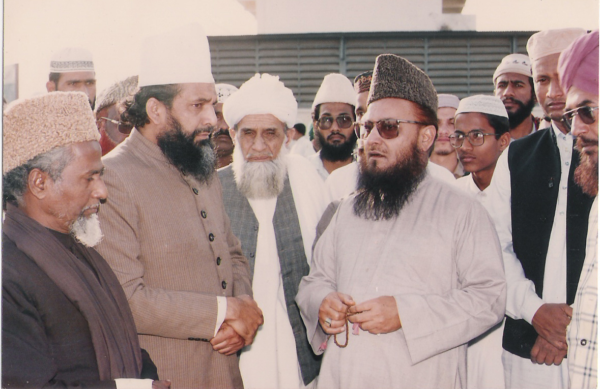 This picture was taken after the burial of Justice Mufti Syed Shujaat Ali Qadri in Darul Ulum Naeemia, Karachi, February 1993. Allama Shah Turabul Haq Qadri, second from left, offering his condolences to Allama Syed Sa'adat Ali Qadri b/o Syed Shujaat Ali Qadri, fourth from left, amongst other prominent scholars of Ahle Sunnat wal Jamaat.